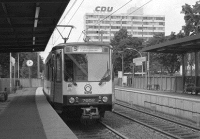 Tram on Route S in Bonn